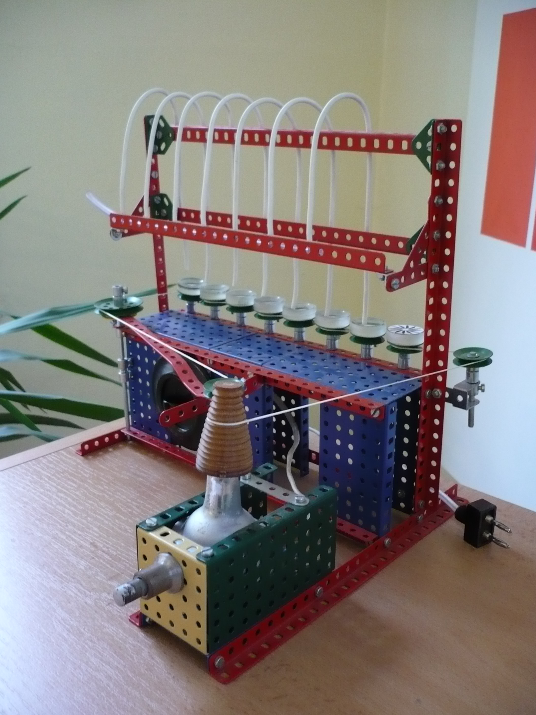 Merkur based apparatus for centrifugal casting of soft contact lenses by Otto Wichterle. Merkur museum in Police nad Metují